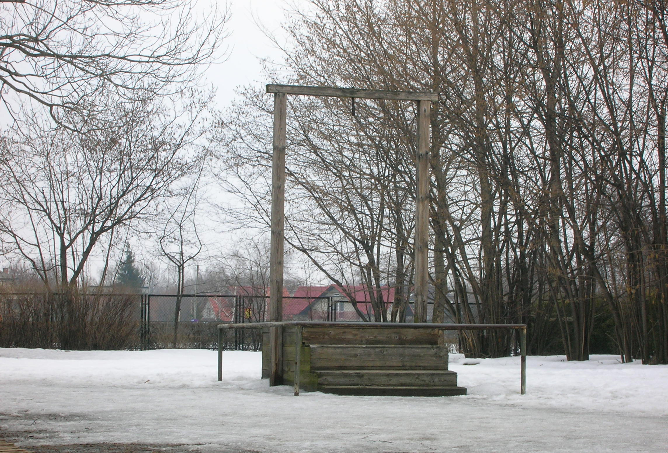 Gallows on Auschwitz